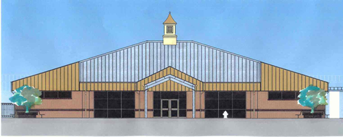 Thomas County Central High School: Pic of the Media Center 2